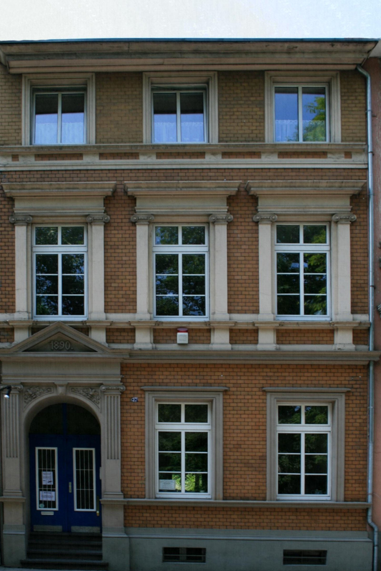 Cultural heritage monument No. B 082 in Mönchengladbach